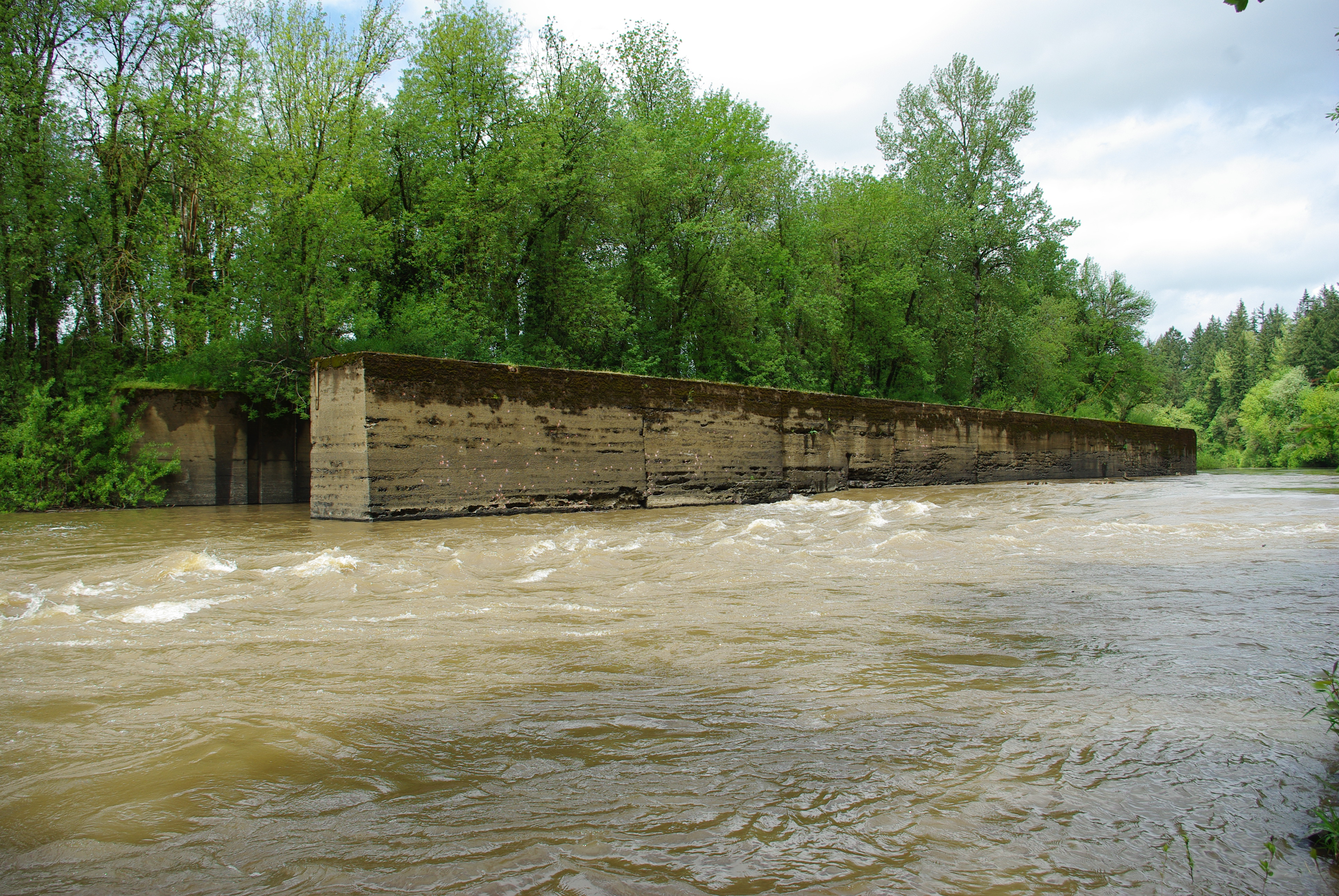 Yamhill River Lock and Dam near Lafayette, Oregon